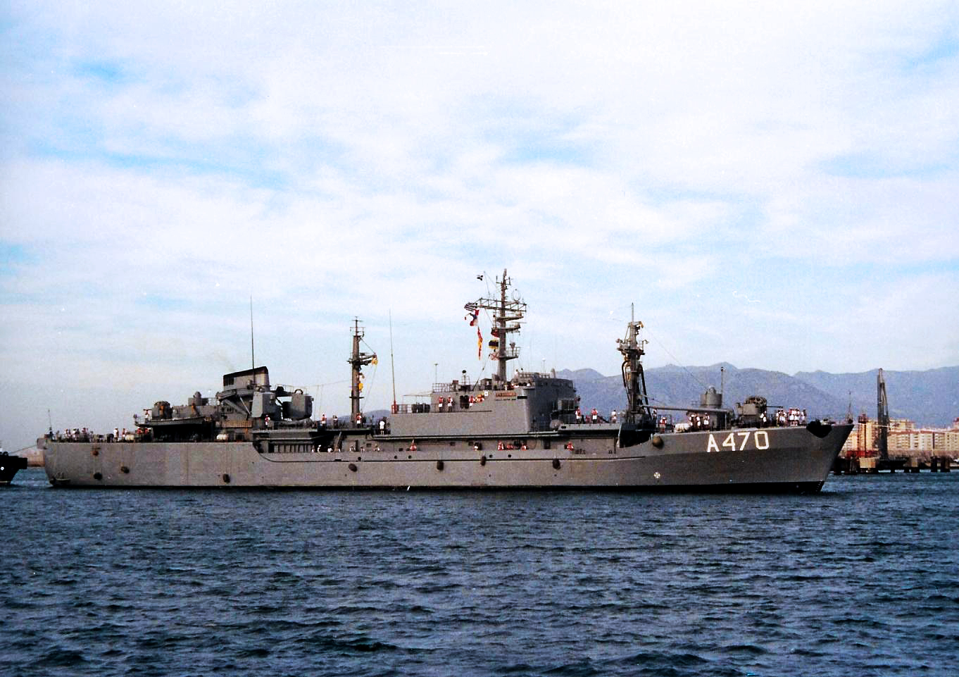 Lueneburg (701C) class Fleet Replenishment Ship Aliakmon (A470), of the Hellenic Navy in Phaleron Bay. From 1968 to 1994 the Aliakmon was in service as the German Saarburg (A1415)